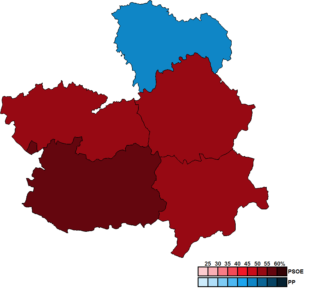 Provincial results for the 2007 Castilian-Manchegan regional election.